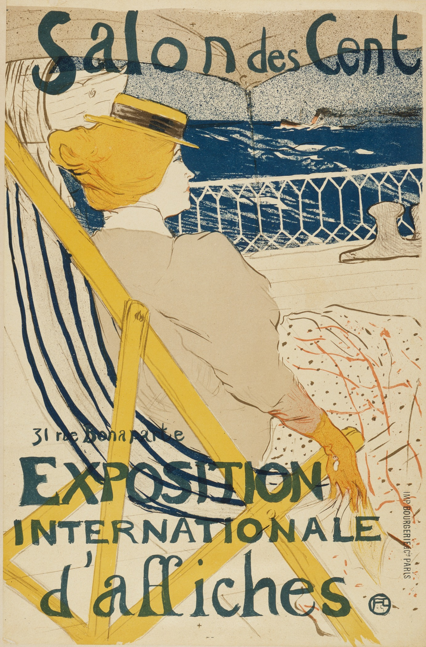 France, 1895-1896 Prints; lithographs Lithograph in six colors: yellow, ocher, red, middle blue, gray, and dark blue spatter Gift of Mr. and Mrs. Billy Wilder (59.80.3) Prints and Drawings